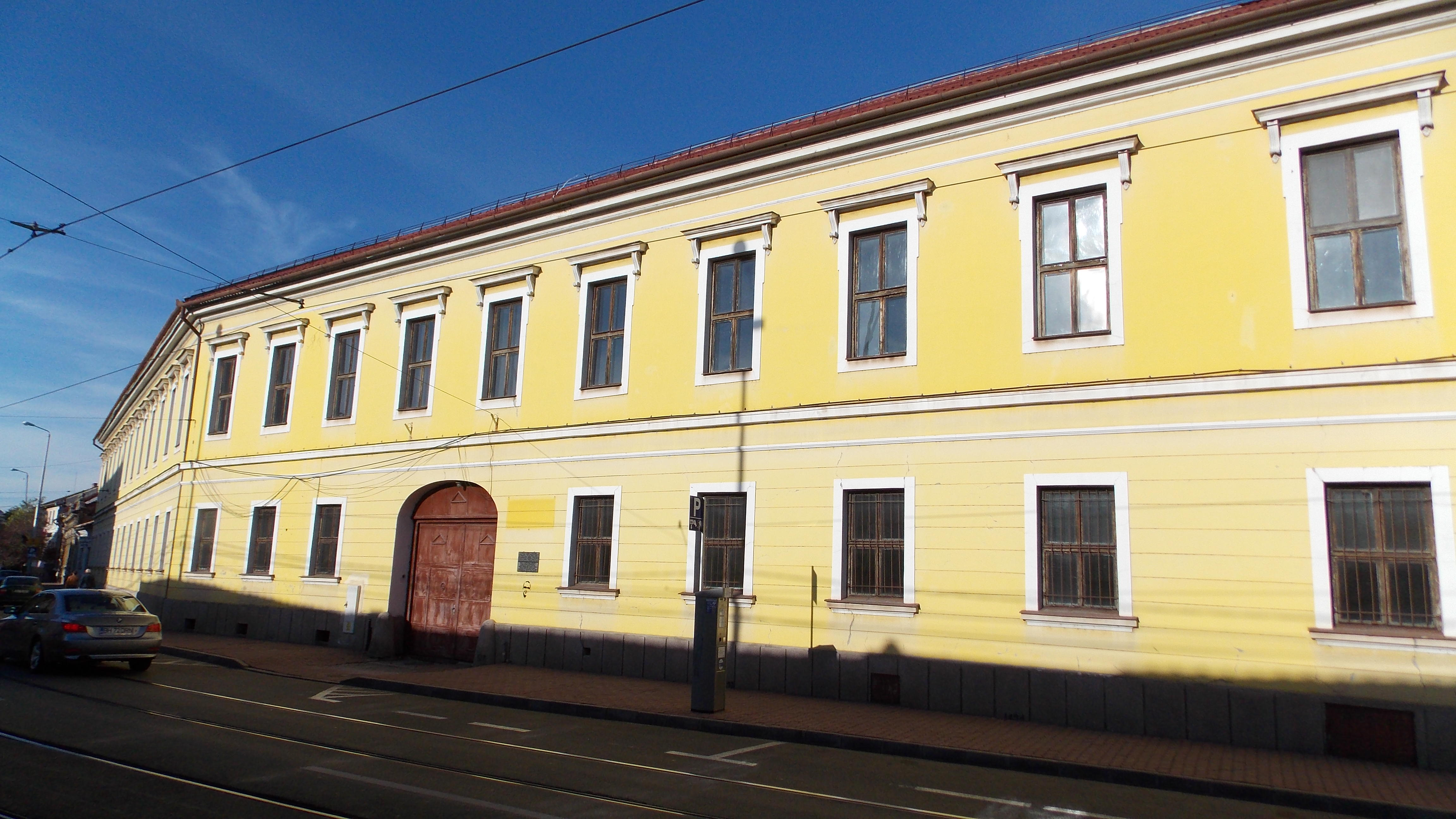 Former Roman-Catholic monastery "Immaculata" - Oradea